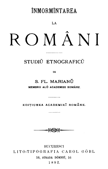 First page of the book Inmormântarea la români. Studiu etnografic, by Simion Florea Marian, Lito-Tipografia Carol Göbl, Bucharest, 1892